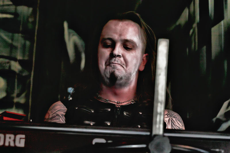 Wacław Vac-v Borowiec of Crionics